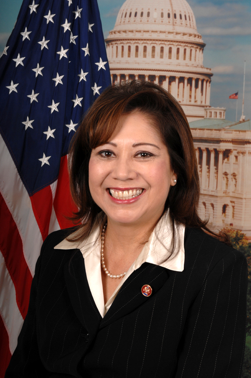 Hilda Solis, member of the United States House of Representatives.